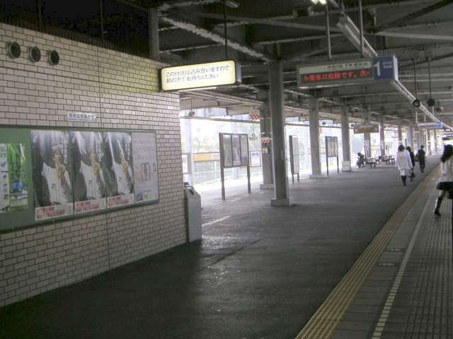 Kaizuka Station platform for subway.